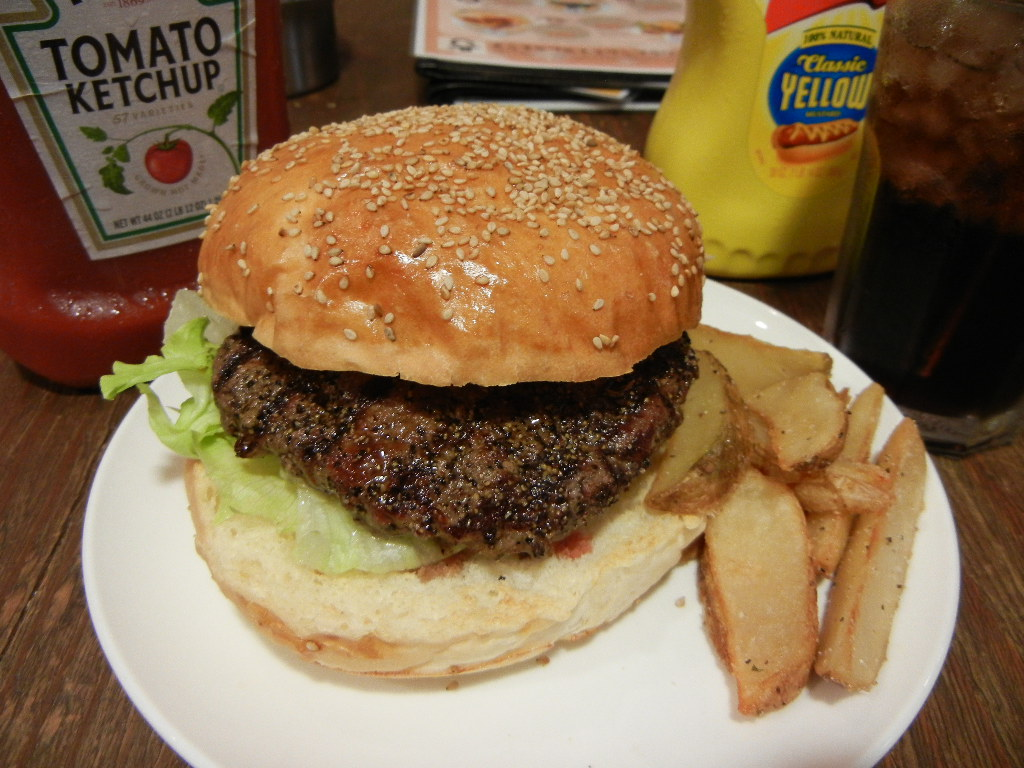 YOKOSUKA-NAVY-BURGER-TSUNAMI. 神奈川県横須賀市のB級グルメ「ヨコスカネイビーバーガー」。TSUMANIで提供されているレギュラーサイズのプレインバーガー。, Yokosuka.